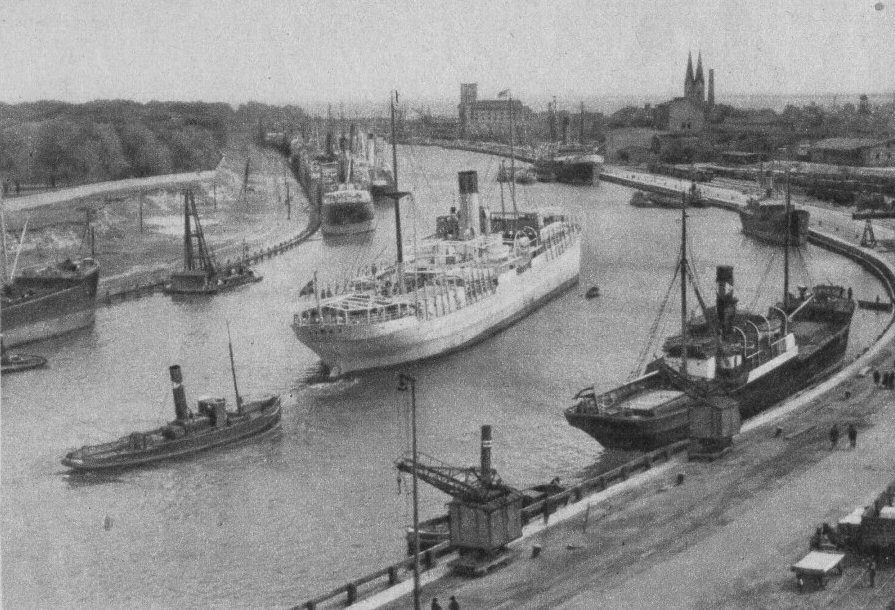 Gdańsk harbour channel in 1930s (then: Free City of Danzig)